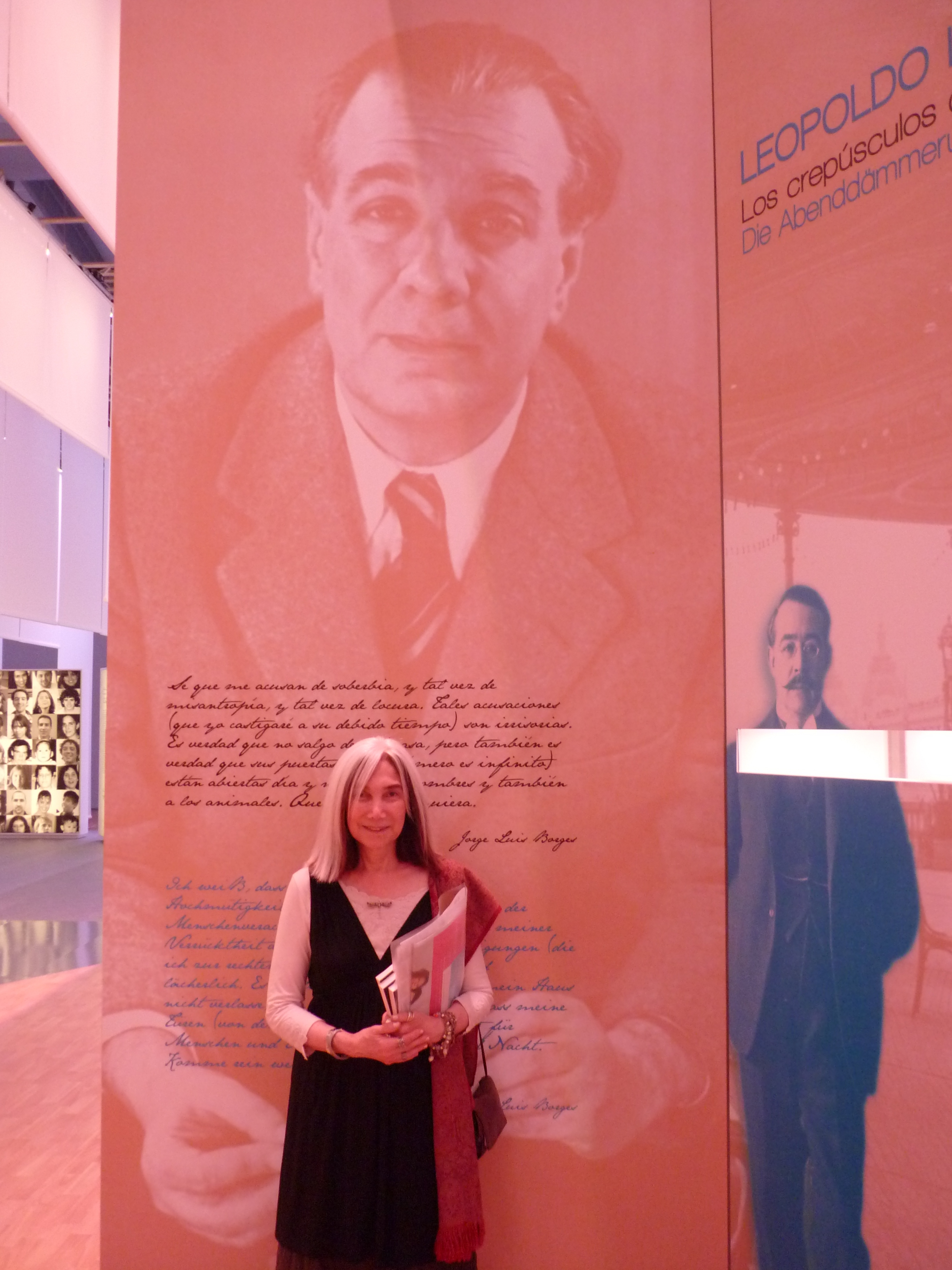 María Kodama in the Franckfurt Bookfair.